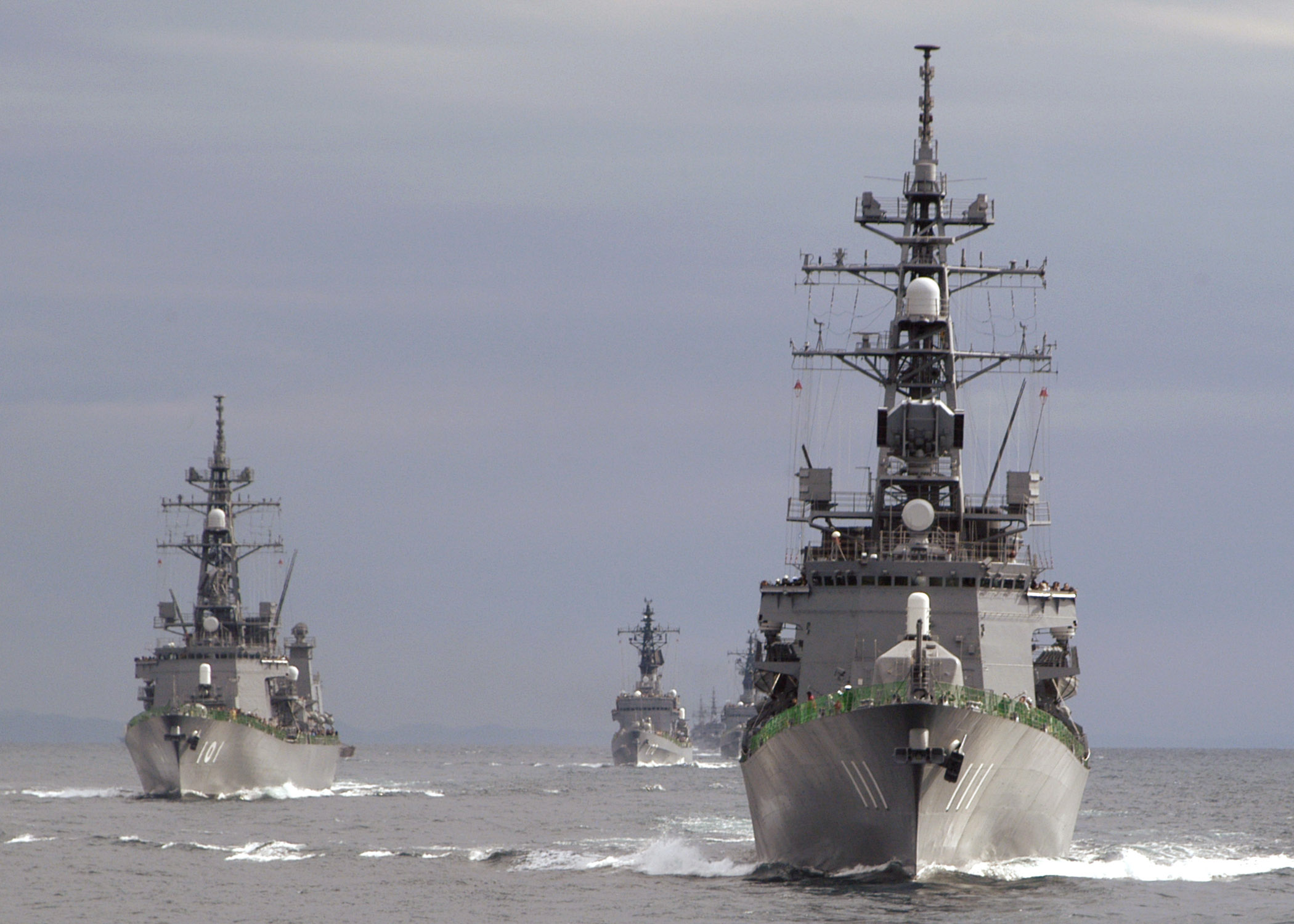 Tokyo Bay, Japan (Oct. 27, 2006) - The Japanese anti-submarine warfare destroyer Onami (DD-111), leads a flotilla of ships from the Japan Maritime Self-Defense Force during a fleet review practice. More than 30 ships and 15 aircraft participated in the display of sea and air power, which was open to the public. U.S. Navy photo by Mass Communication Specialist 2nd Class Chantel M. Clayton (RELEASED)